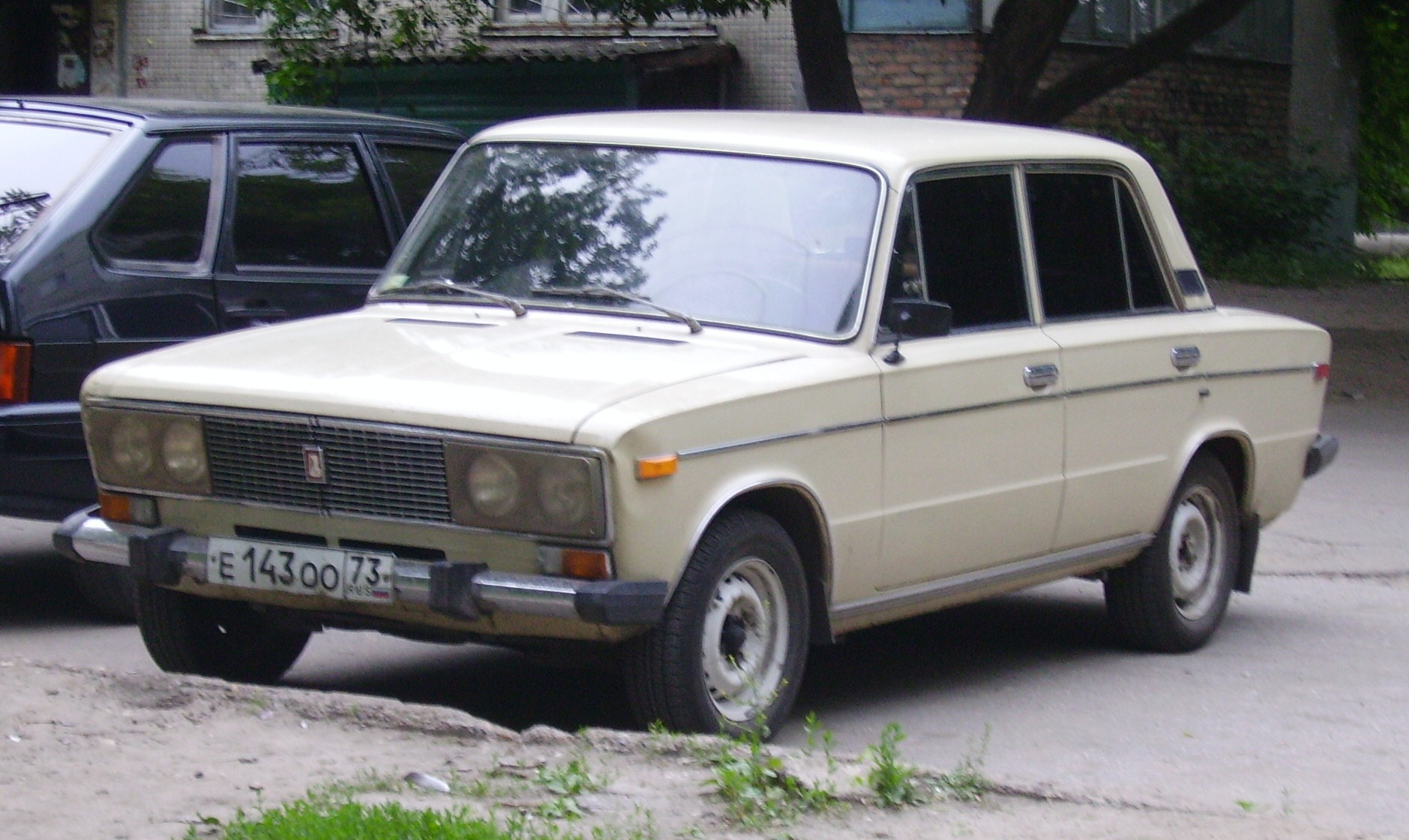 Photo of Lada 2106, in Ulyanovsk